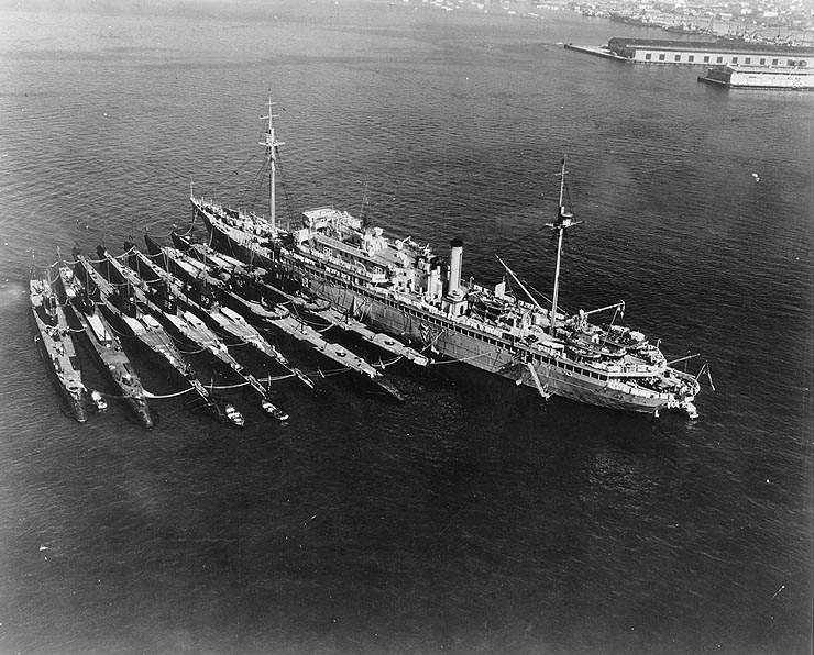 The U.S. Navy submarine tender USS Holland (AS-3) with seven submarines alongside, in San Diego harbour, California (USA), on 24 December 1934. The submarines are (from left to right): USS Cachalot (SS-170), USS Dolphin (SS-169), USS Barracuda (SS-163), USS Bass (SS-164), USS Bonita (SS-165), USS Nautilus (SS-168) and USS Narwhal (SS-167).